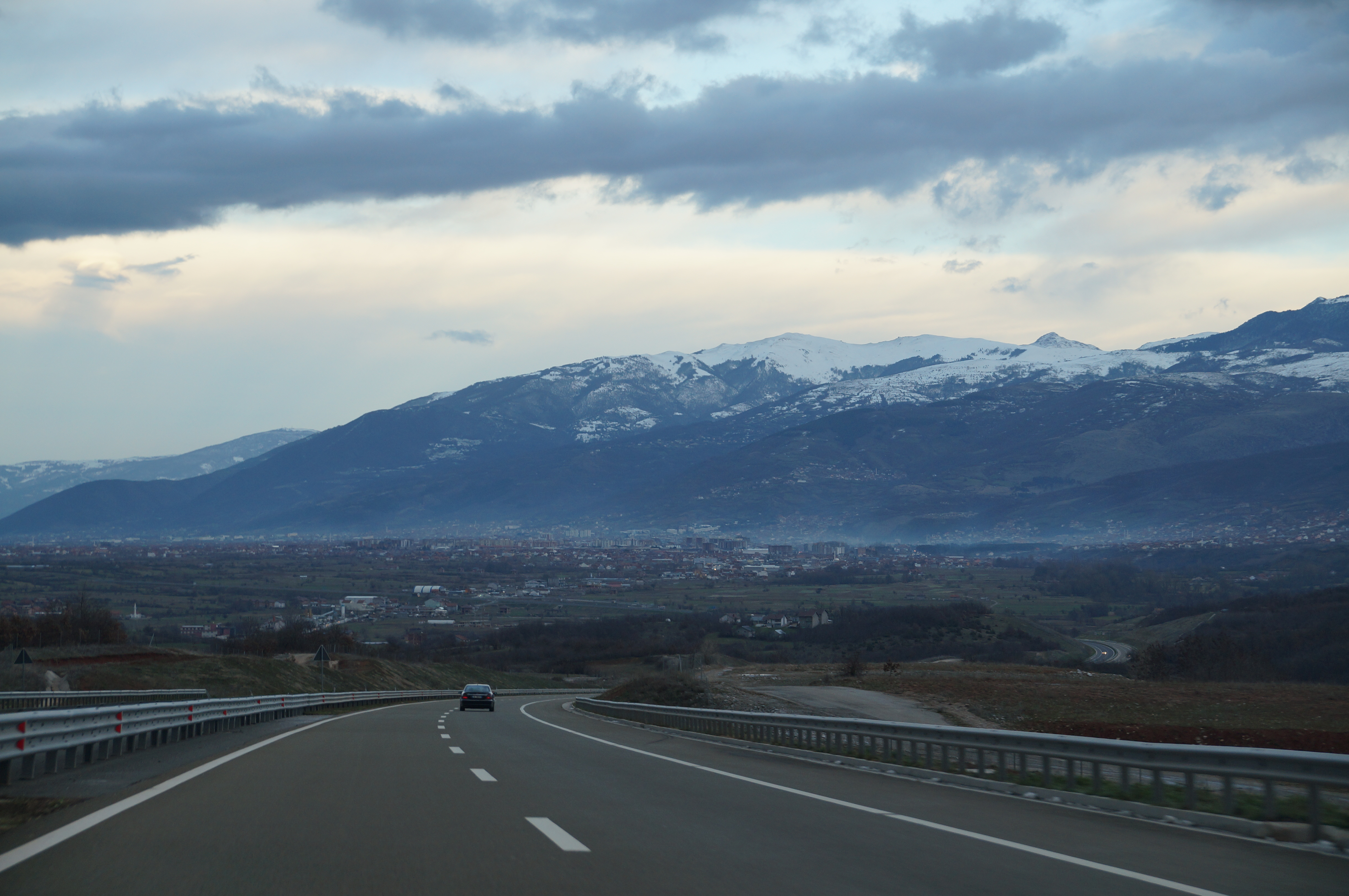 Approaching Prizren on Highway Route 7